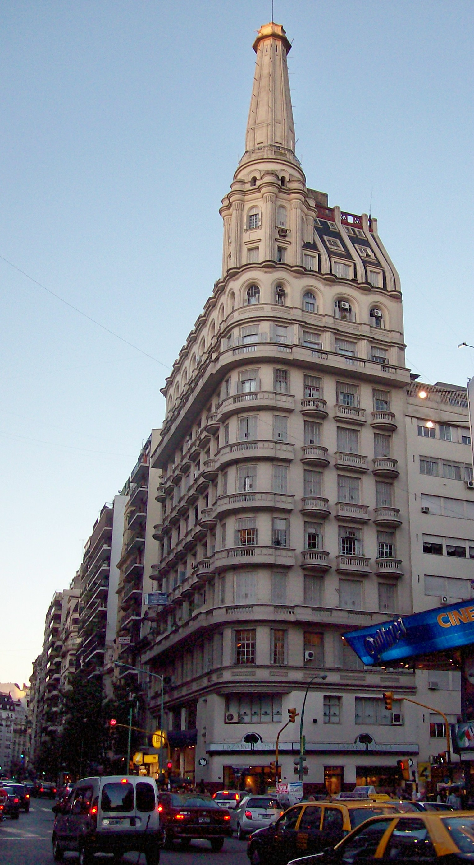 The Roccatagliata Building, on the corner of Callao and Santa Fe Avenues, designed in 1920 by Mario Palanti.